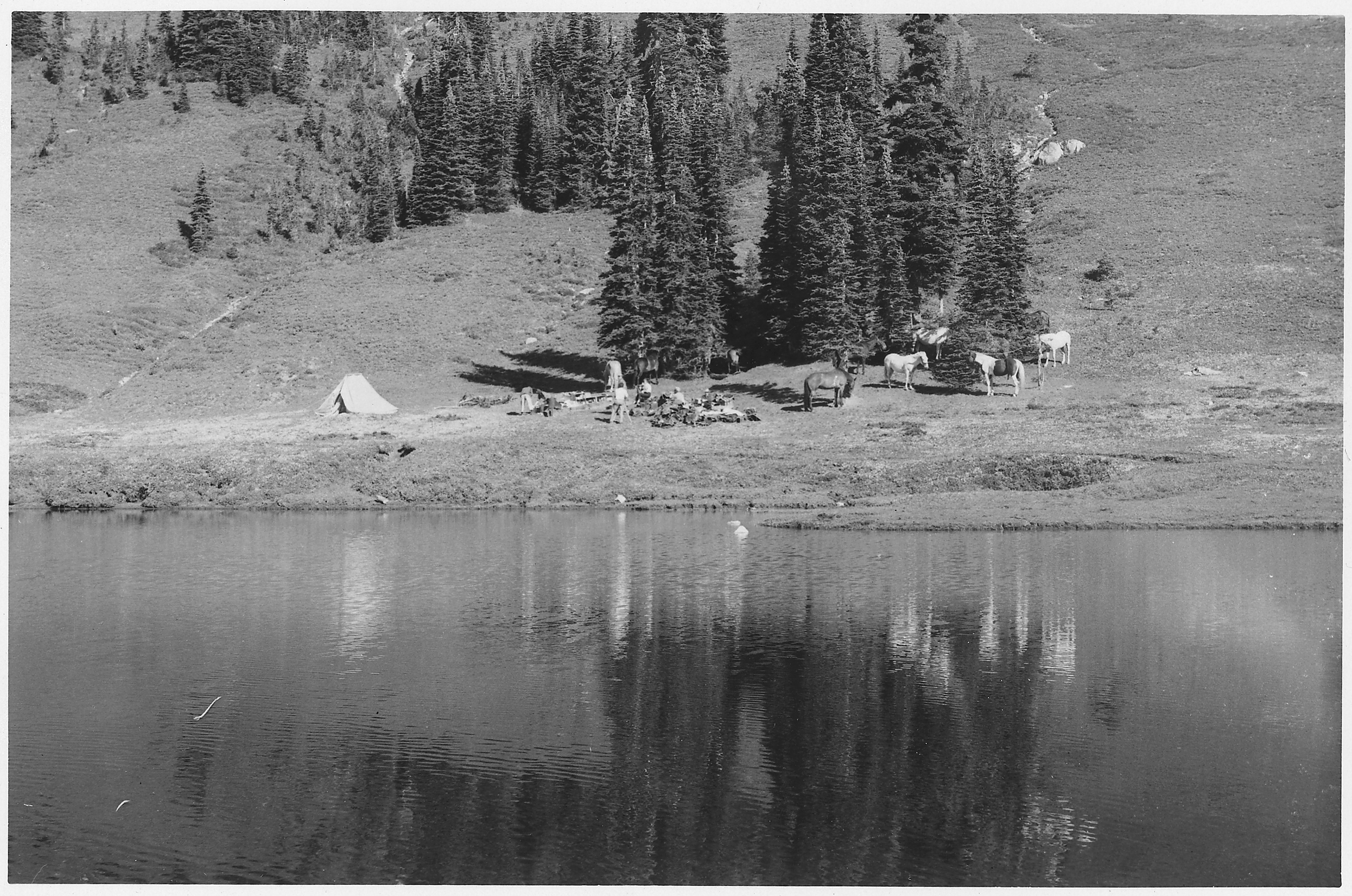 General notes: Recreation use at unimproved sites.